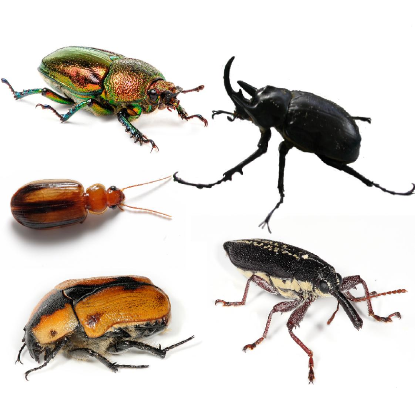 A collage of beetles made from images uploaded by User:Fir0002.